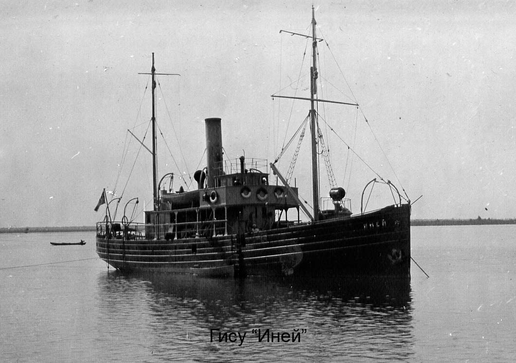 Hydrographic ship "Iney" in Obskaya Guba, 1927